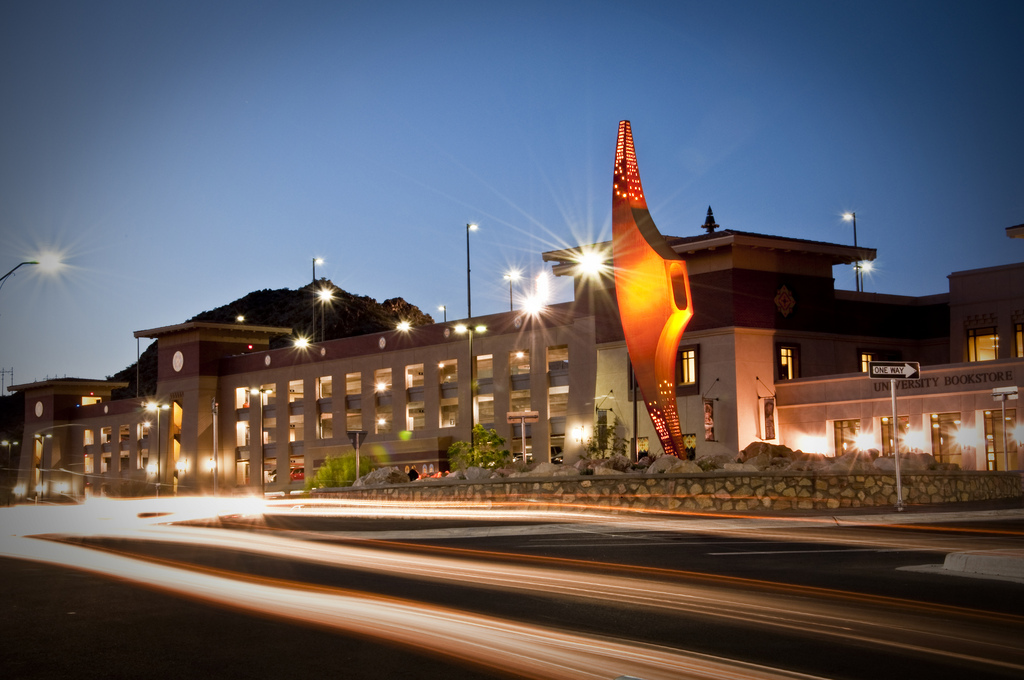 "Mining Minds" — a 25-foot tall sculpture of a pickaxe, by Michael Clapper. Located on the University of Texas at El Paso campus, at the intersection of University Ave and Sun Bowl Drive.